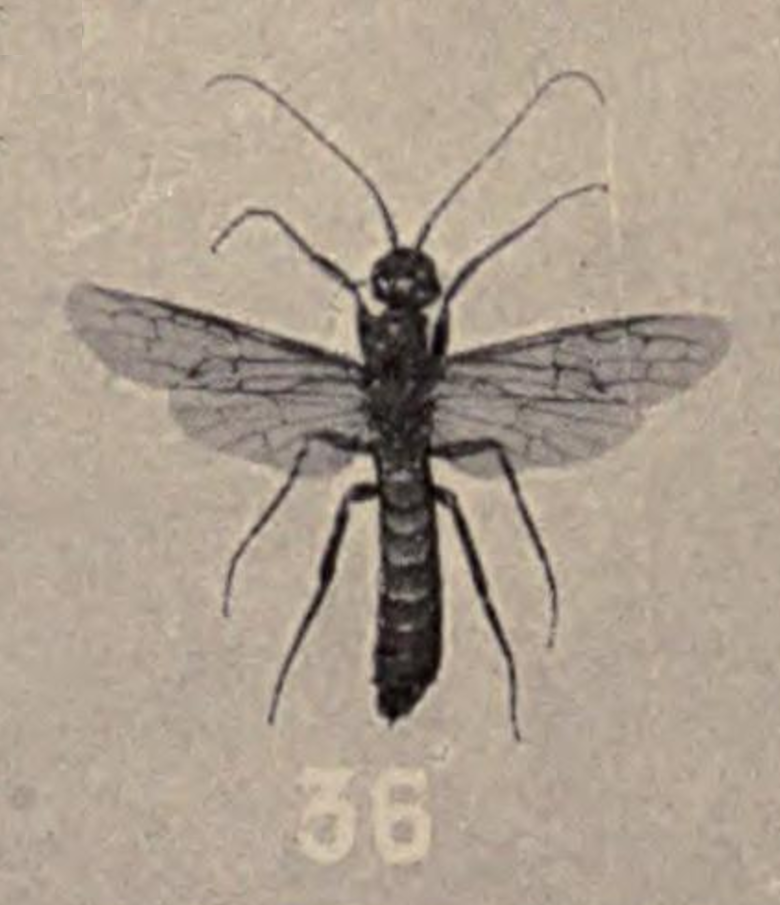 Xeris morrisoni. Note Howard called it Xeris morisonii